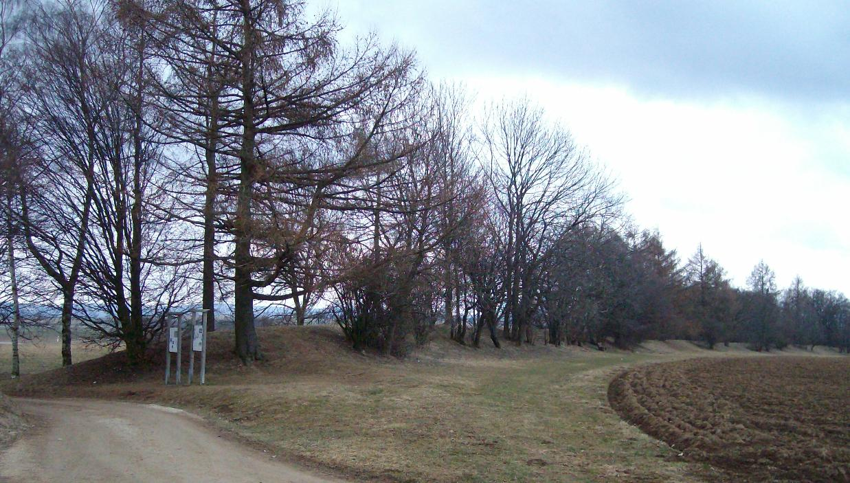 Heidengraben, Celtic Oppidum, near Grabenstetten, Germany. Border between inner and outer area of the Oppidum.